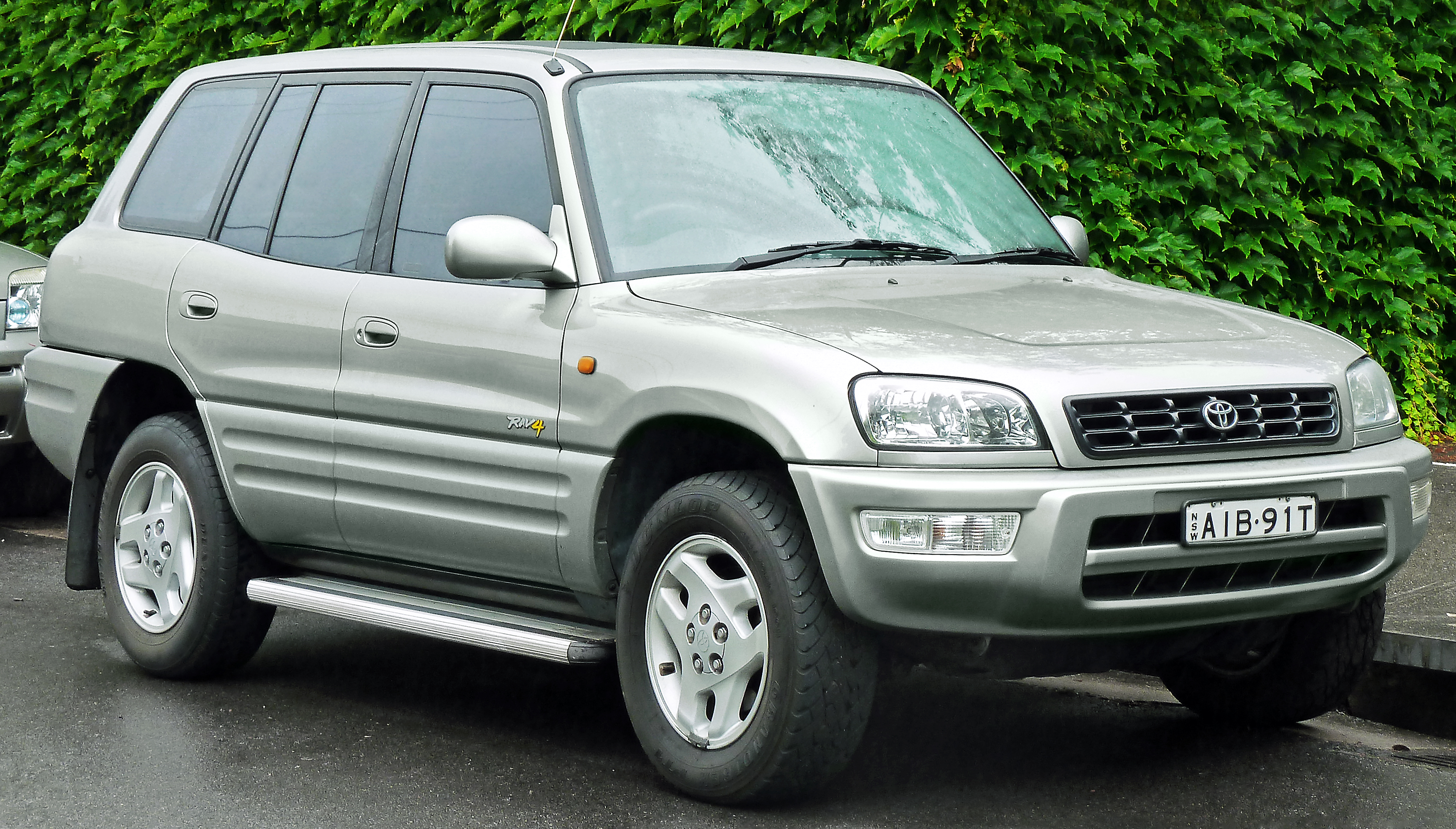 1999 Toyota RAV4 (SXA11R) Cruiser wagon. Photographed in Roseville, New South Wales, Australia.